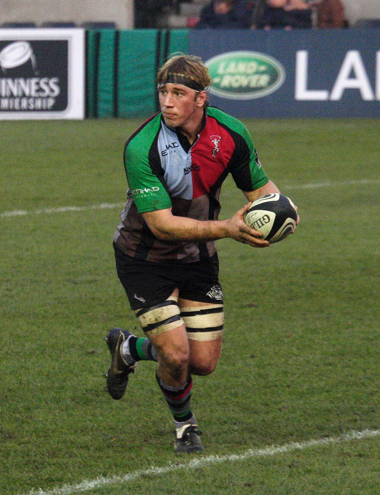 Chris Robshaw playing for Harlequins v Saracens 20.12.2007 Guinness Premiership